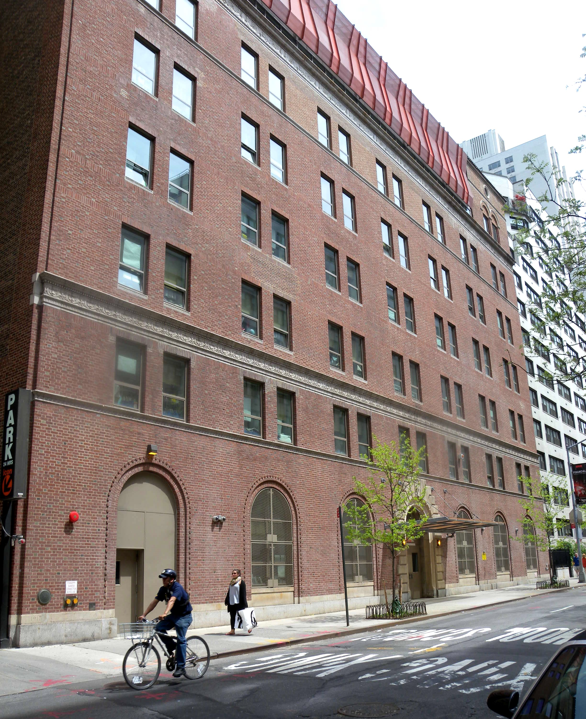 Looking east across 63d at the Beekman International School on a sunny midday.